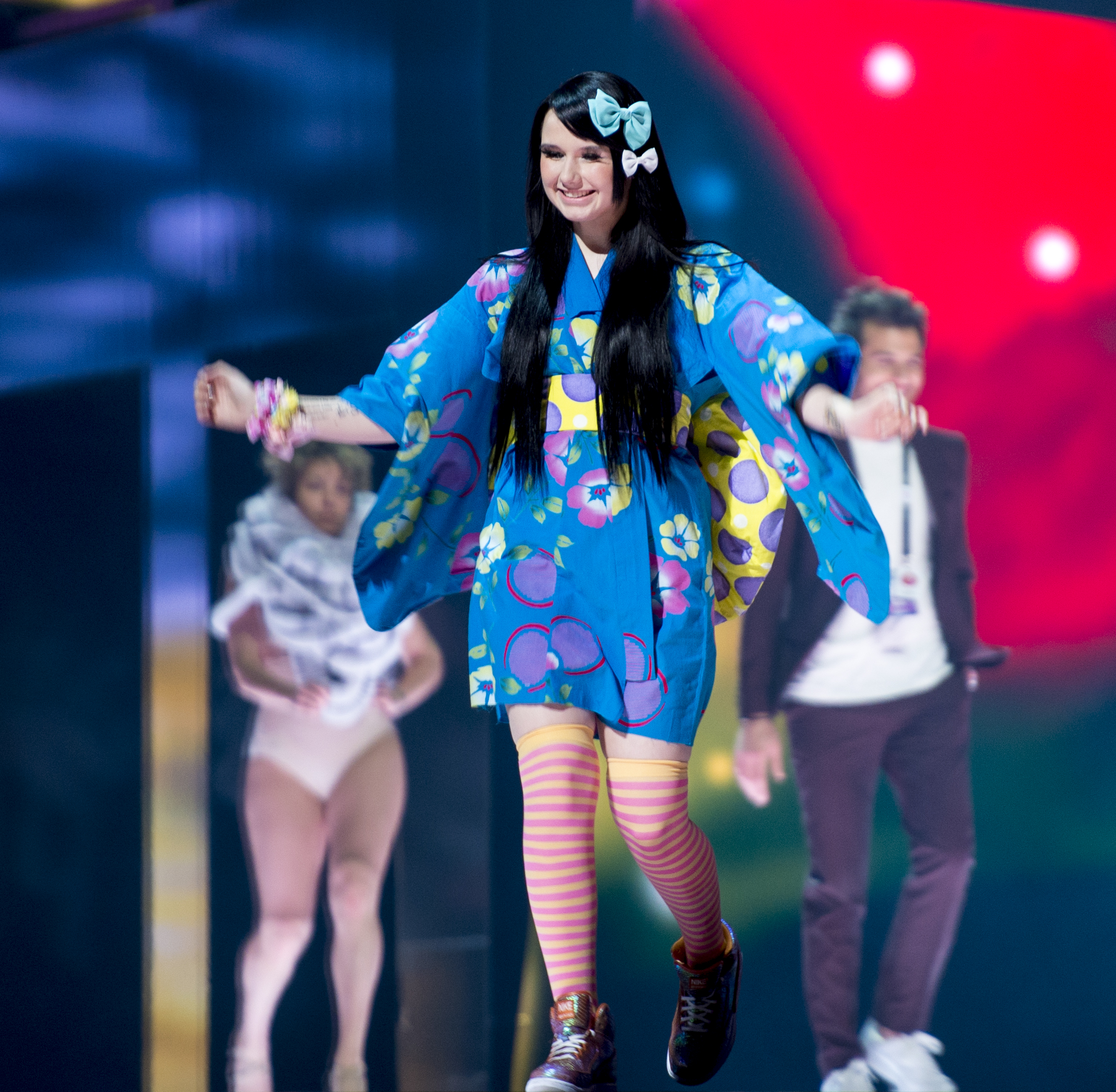 The opening act of the final, during the first dress rehearsal of the Eurovision Song Contest 2016 in Stockholm. (Help translate this text)